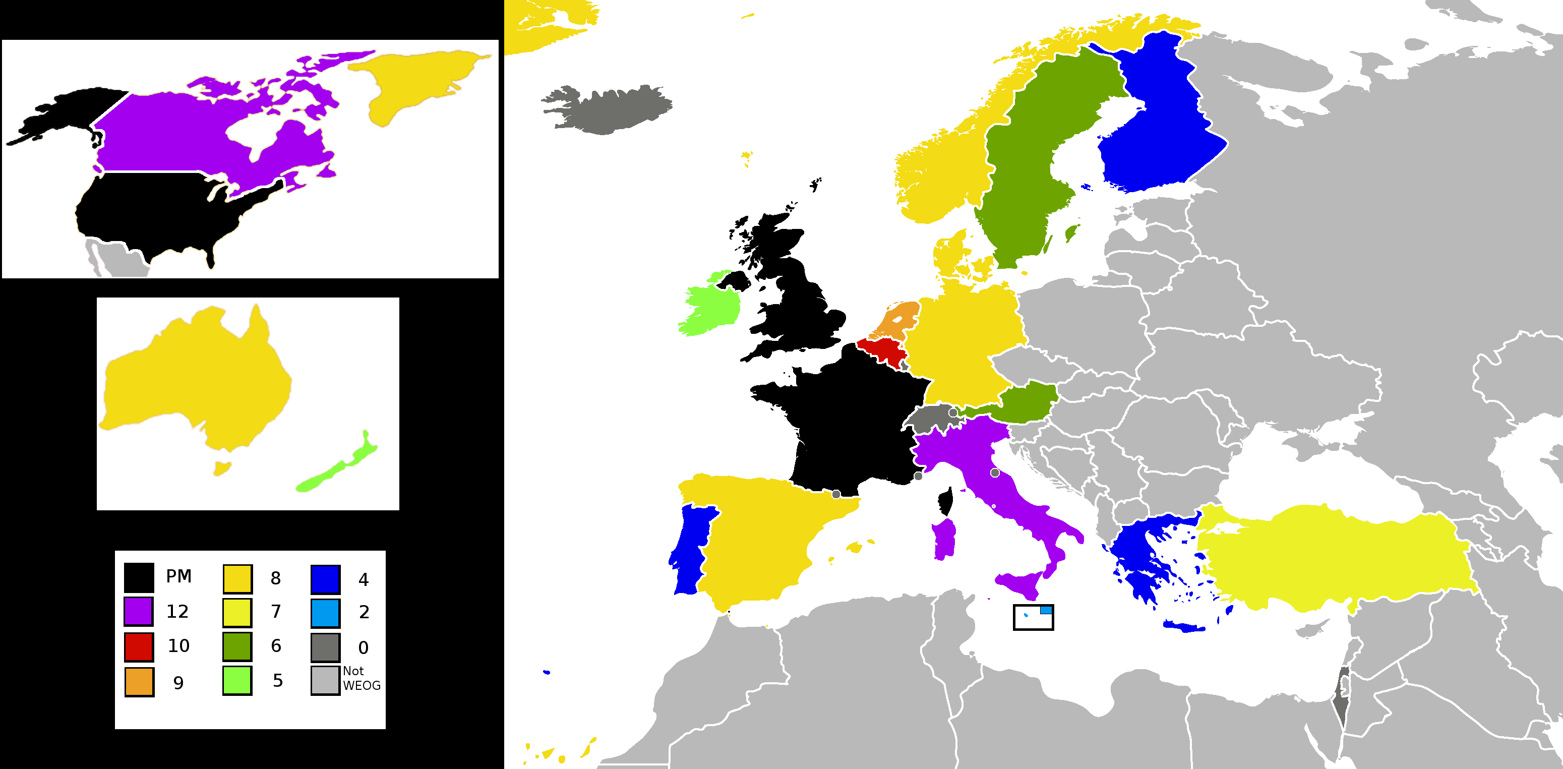 A map of the Western European and Others Group (WEOG), an unofficial group of the United Nations, with the number of years each member has served on the United Nations Security Council (UNSC), as of 2010.